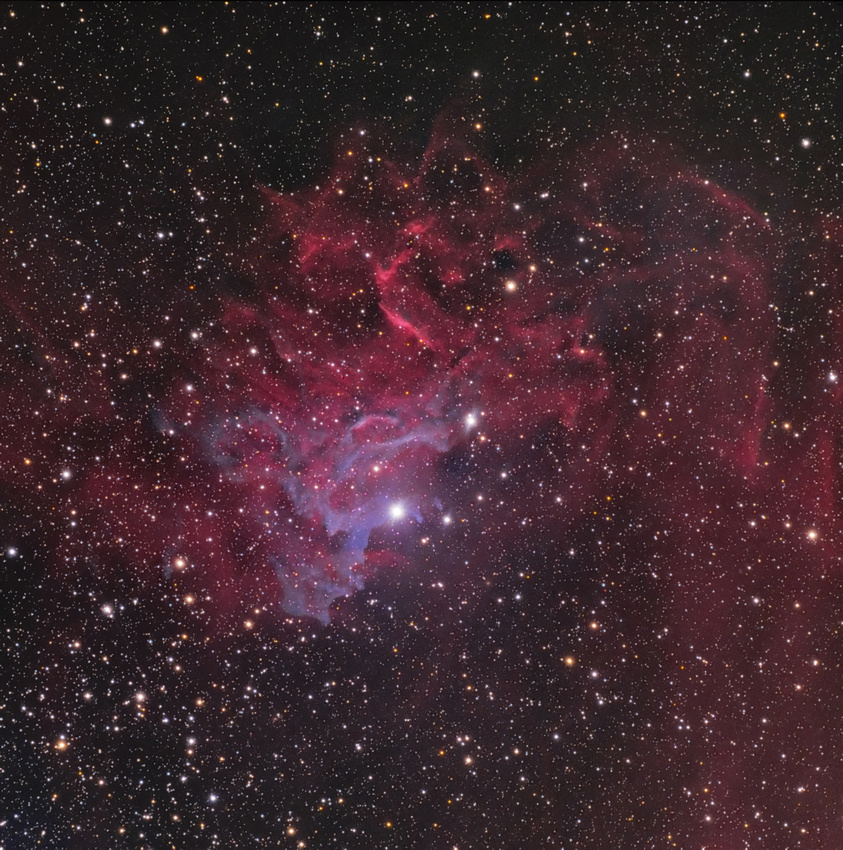 IC 405 - The "Flaming Star Nebula" SBIG ST-4000XCM 15x15min Imager Temp -20C APM/TMB 130/780 Field Flattener ref.